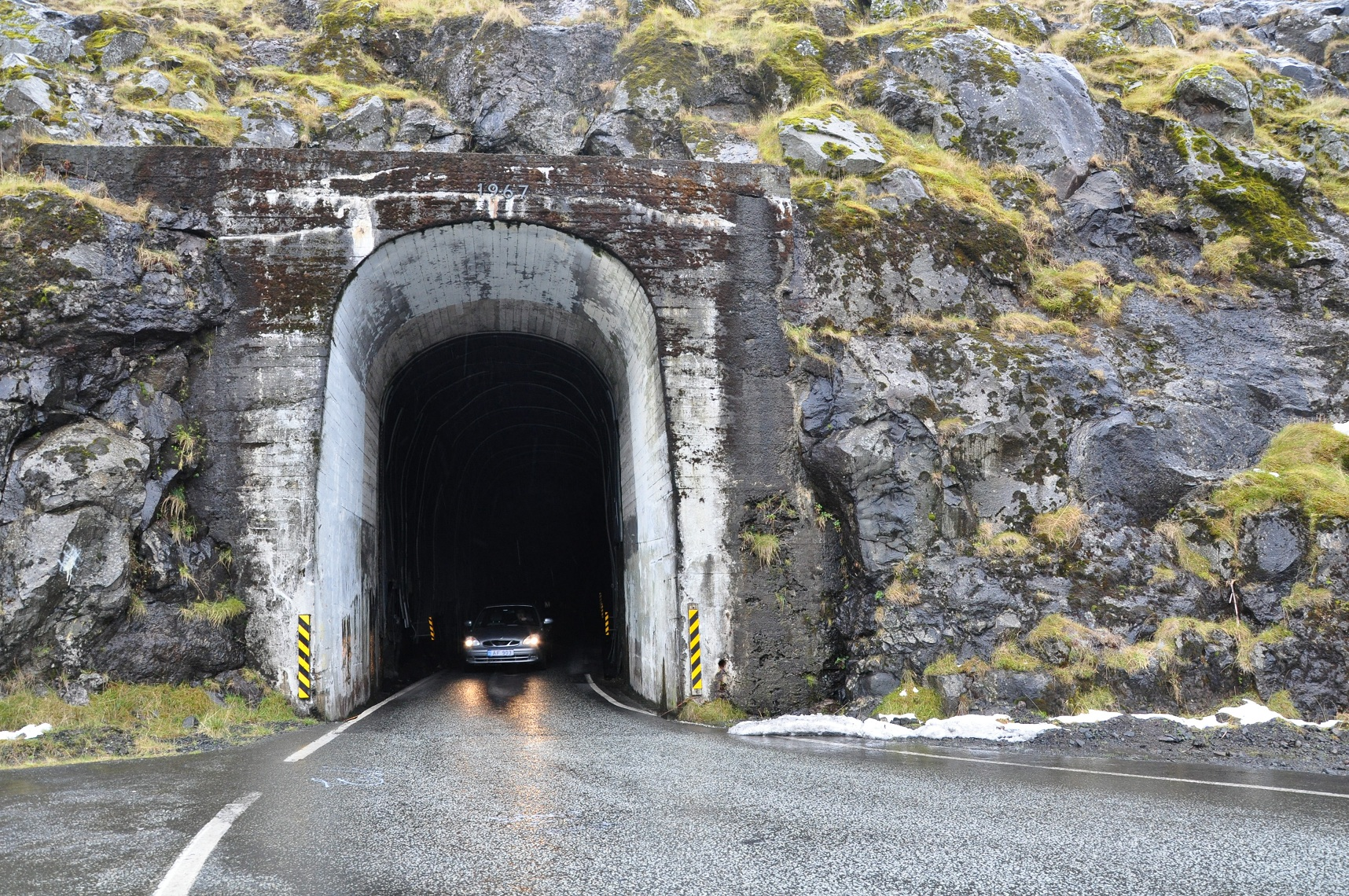 Entrance of the Hvannasundstunnilin (Hvannasund Tunnel) close to Norðdepil on the island Borðoy, Faroe Islands. This tunnel was built in 1967. It is 2120 m long and connects Norðdepil with Árnafjørður. It has only a single lane and no lights. There's one priority direction, with a series of passing places on the other side. This tunnel is one in a series of two that connects Klaksvík with the eastern side of Borðoy and with the island Viðoy. The other is the Árnafjarðartunnilin (Árnafjørður Tunnel) that connects Klaksvík and Árnafjørður (1680 m long, built in 1965, also single lane, no lights).